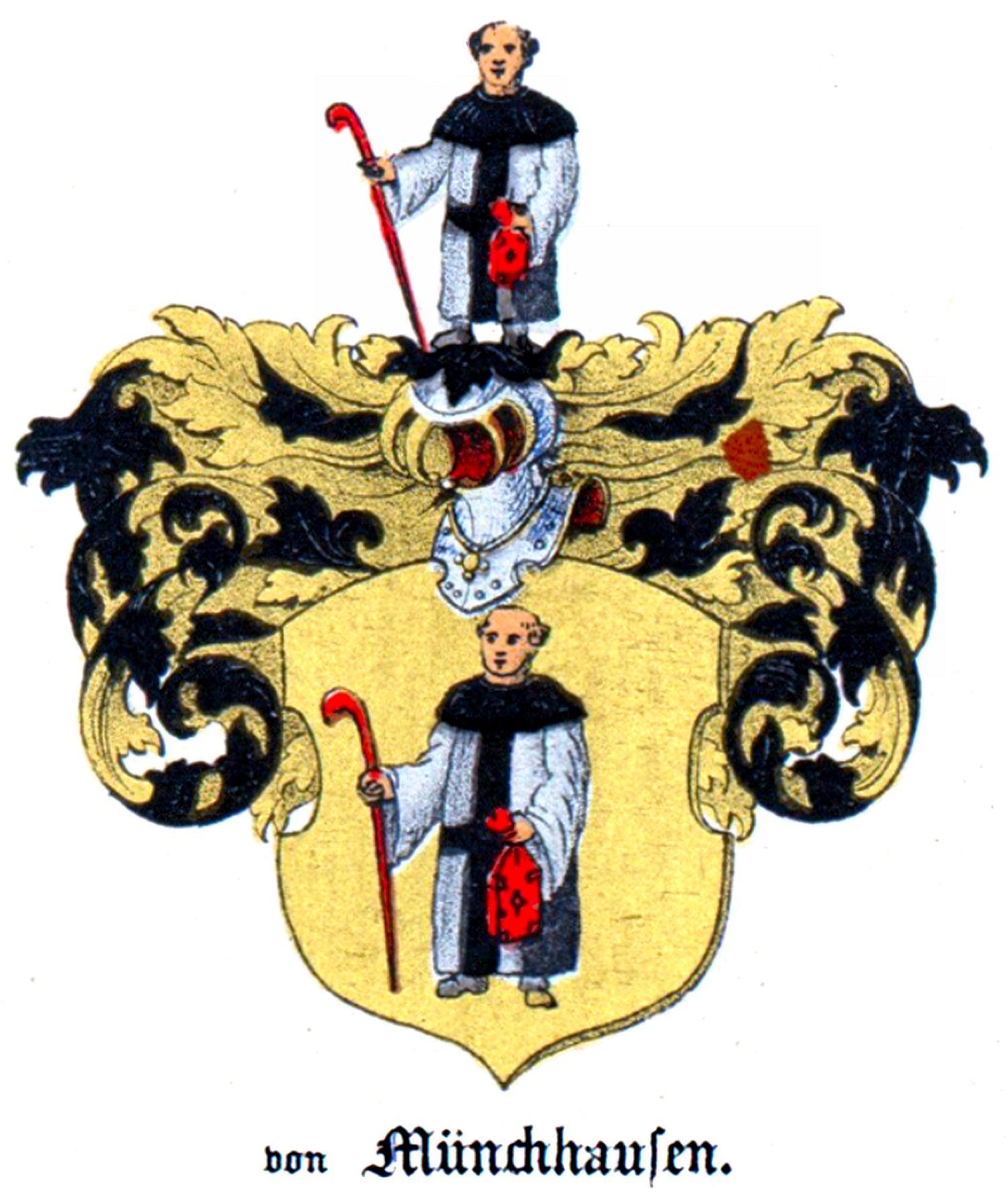 Coat of Arms of Münchhausen family